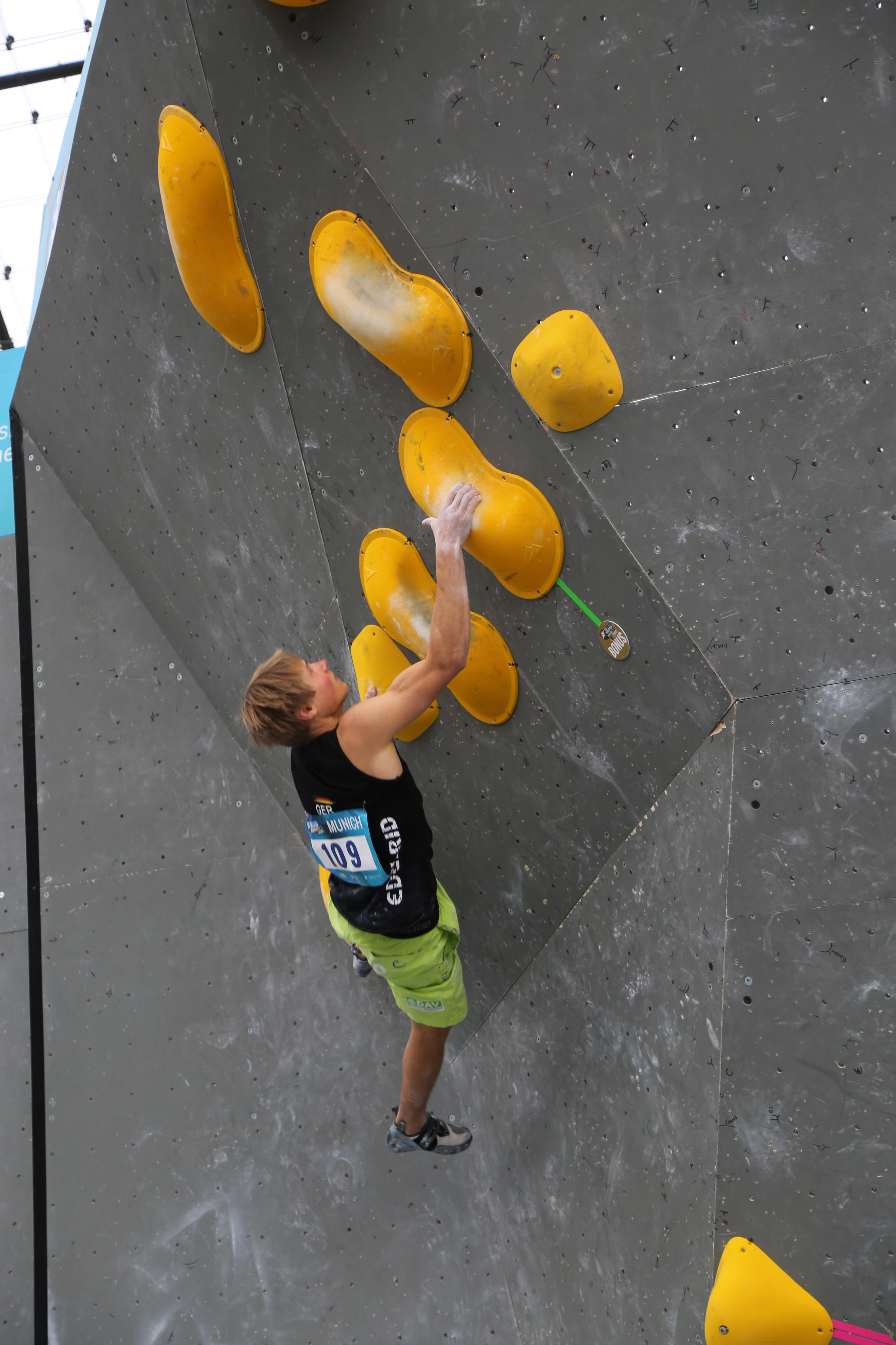 Alex Megos, GER, at the Boulder Worldcup 2017 in Munich, Germany